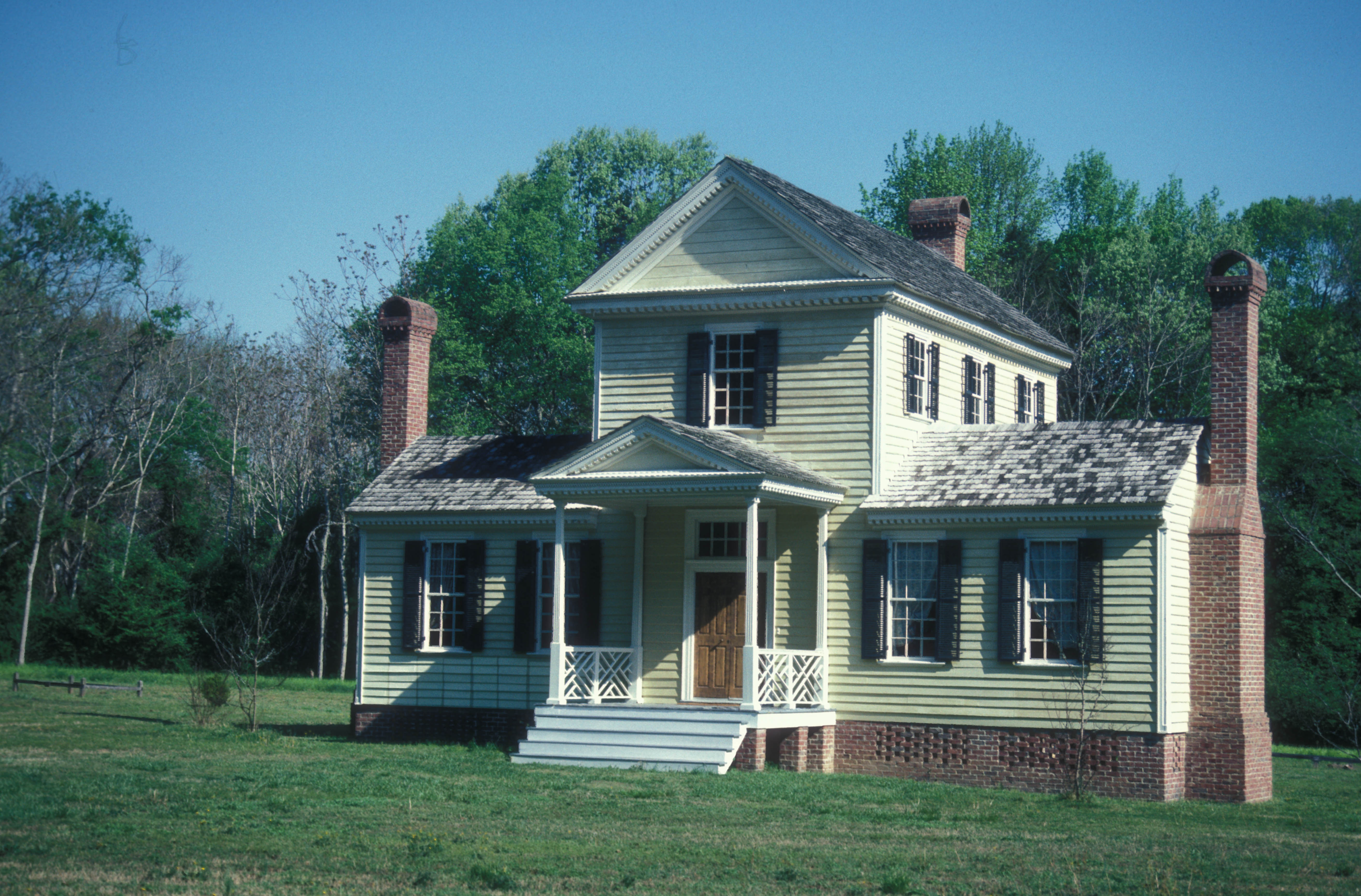 PLANTATION HOUSE CIRCA 1808